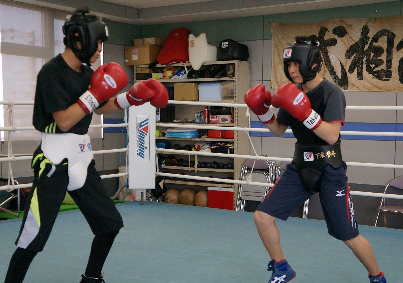 BusoBoxing2